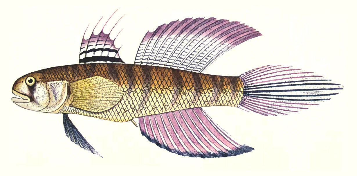 Stenogobius ophthalmoporus (Gobiidae)